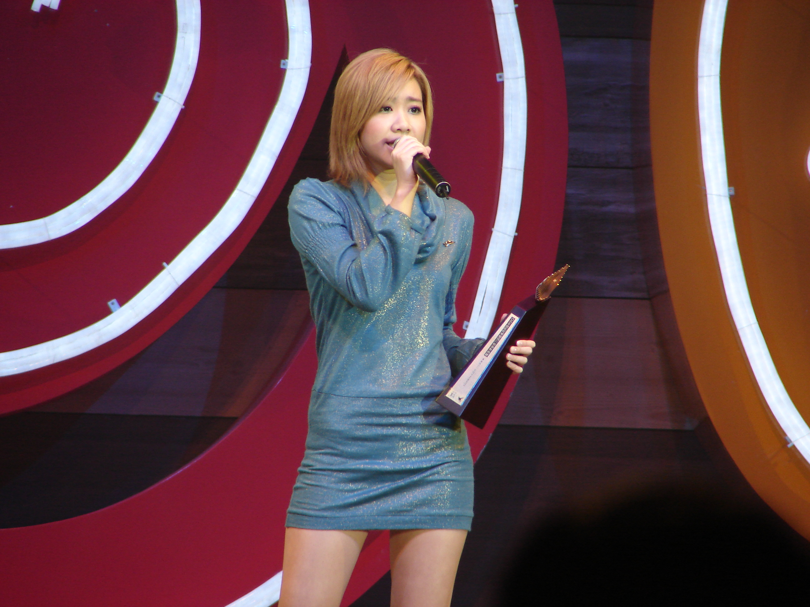 Kary Ng 吳雨霏@叱o宅903 - 2006 (01 January 2007)